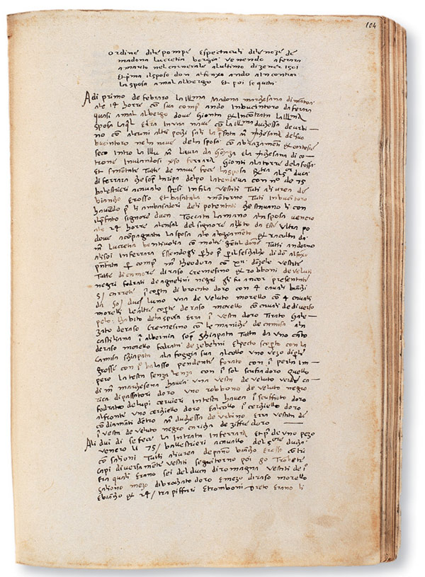 copy of a manuscript